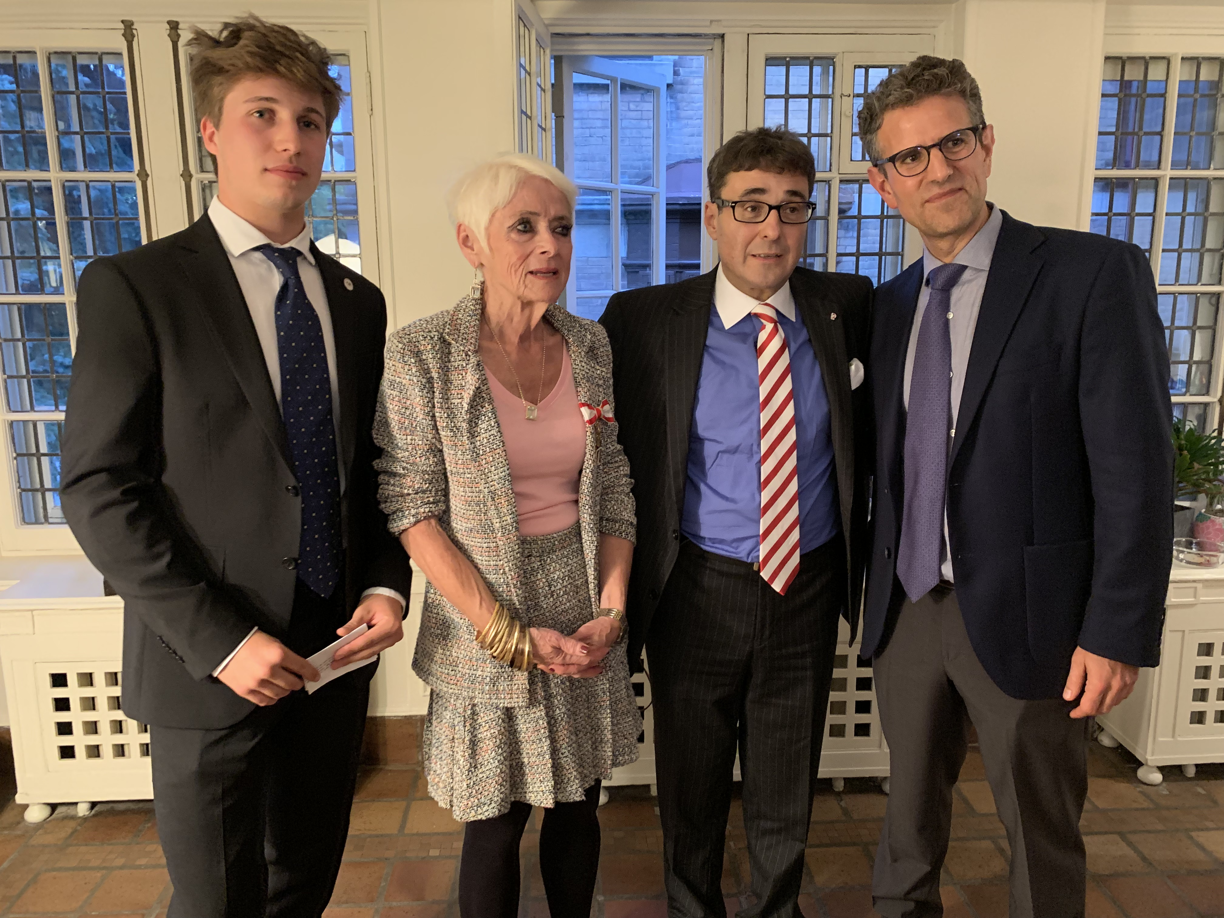 Reception of the Gold Medal for Services to the Republic of Austria to Naomi Kramer, in 2019. Second from right, Dr. Stefan Pehringer, Austrian Ambassador to Canada.